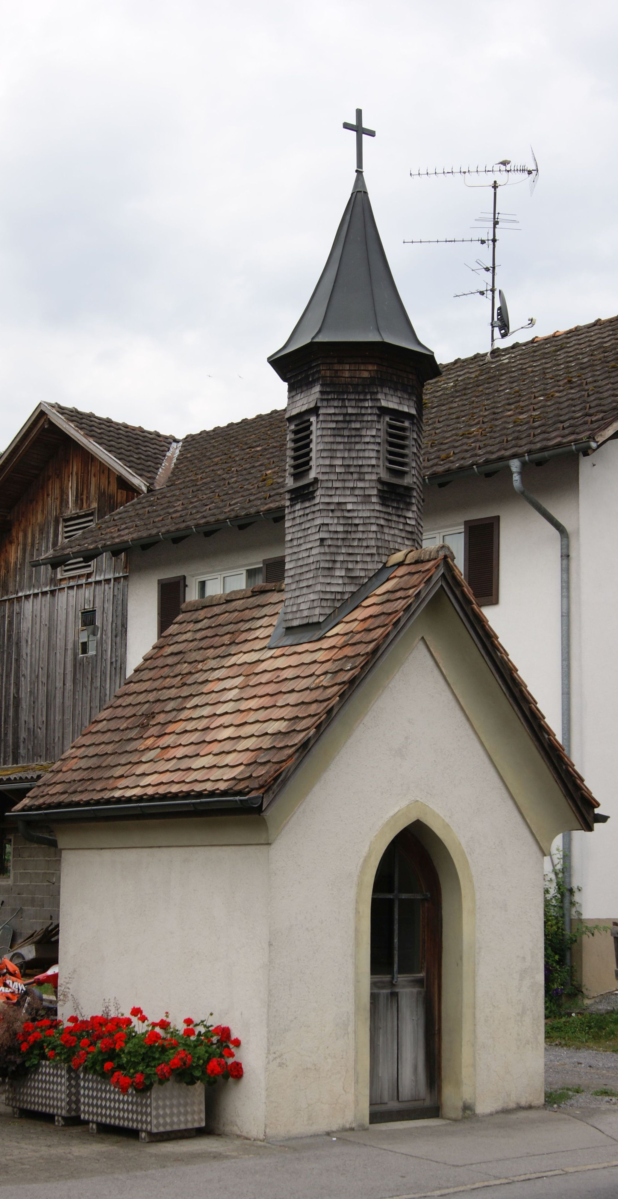 Chapel of the Holy Mary in the local centre "Hintere Achmühle" in Dornbirn, Vorarlberg, Austria.